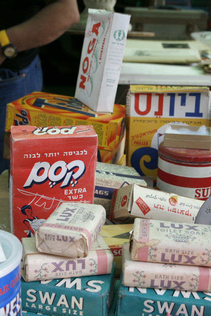 laundry soaps in Jaffa flea market